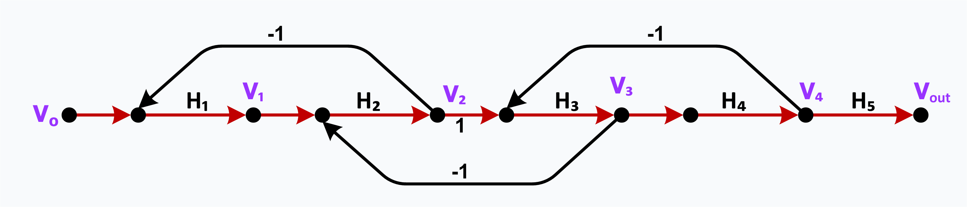 The signal-flow graph of a passive band pass filter that has all impedances scaled by R, an arbitrary resistance.